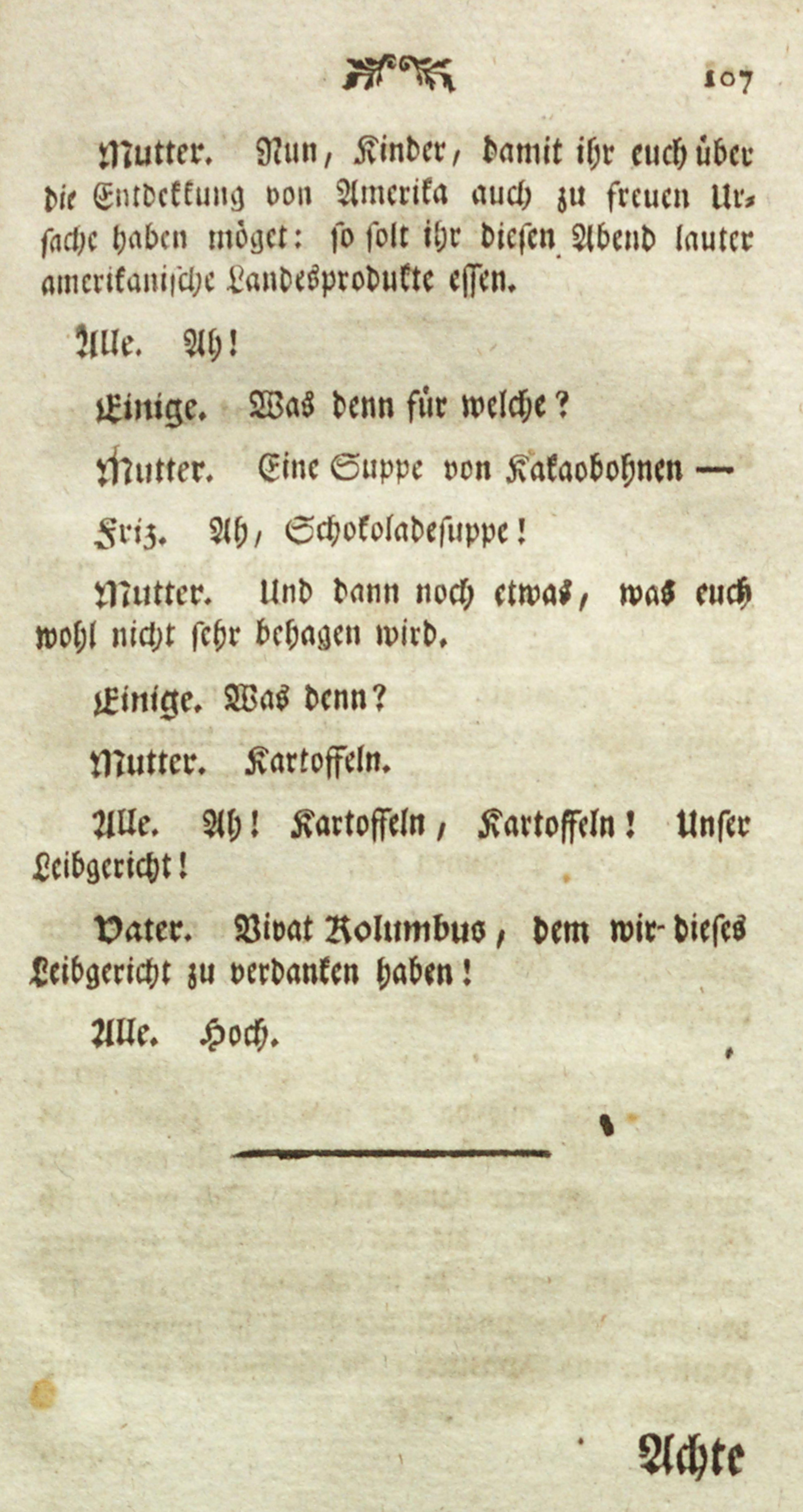 From Joachim Heinrich Campe: Kolumbus oder die Entdekkung von Westindien (1782)